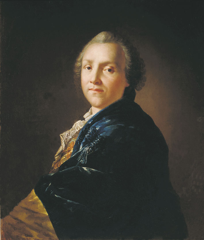 Portrait of poet A.P.Sumarokov